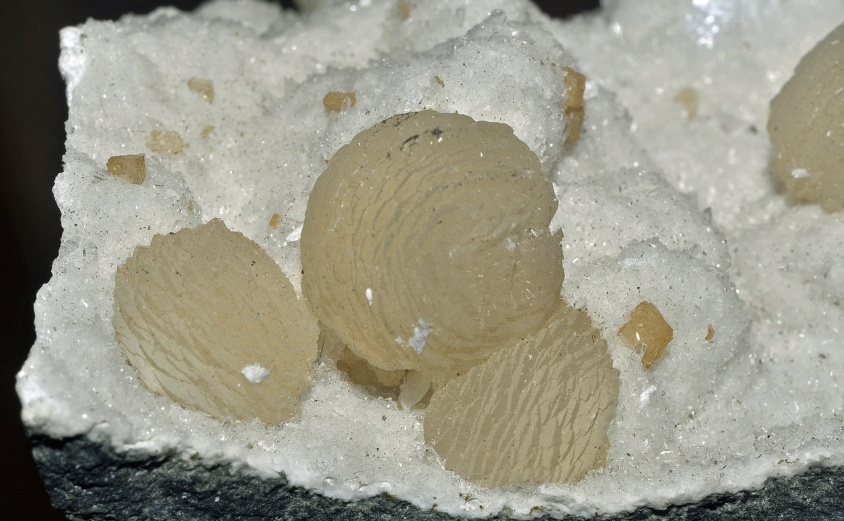 crystals of gyrolite : Lonavala Quarry, Lonavale (Lonavala), Pune District (Poonah District), Maharashtra, India